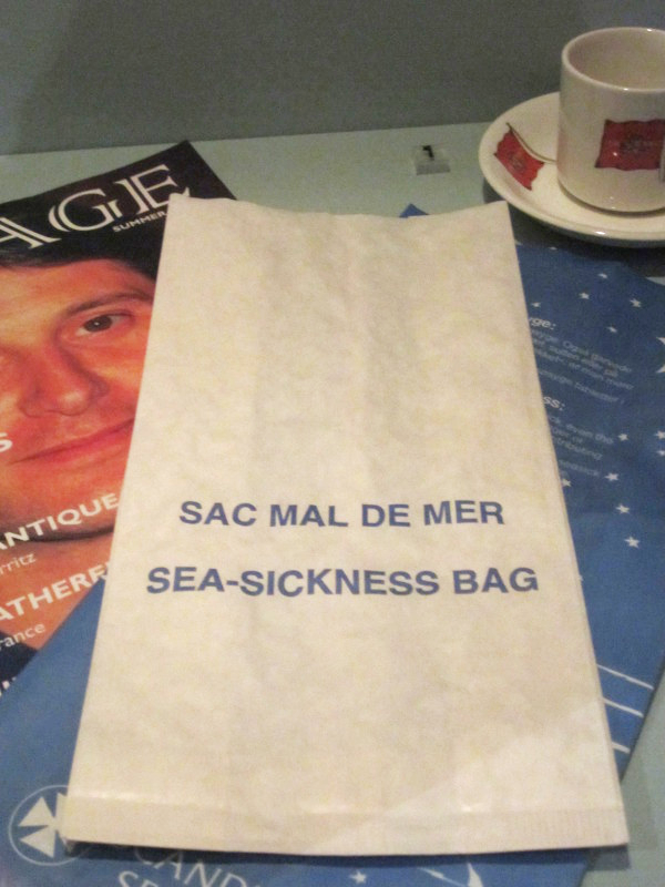 Sea-sickness bag, Merseyside Maritime Museum, Liverpool, England.